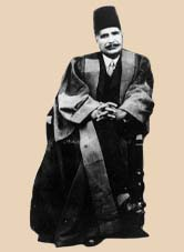 Depicted person: Muhammad Iqbal – Urdu poet and leader of the Pakistan Movement